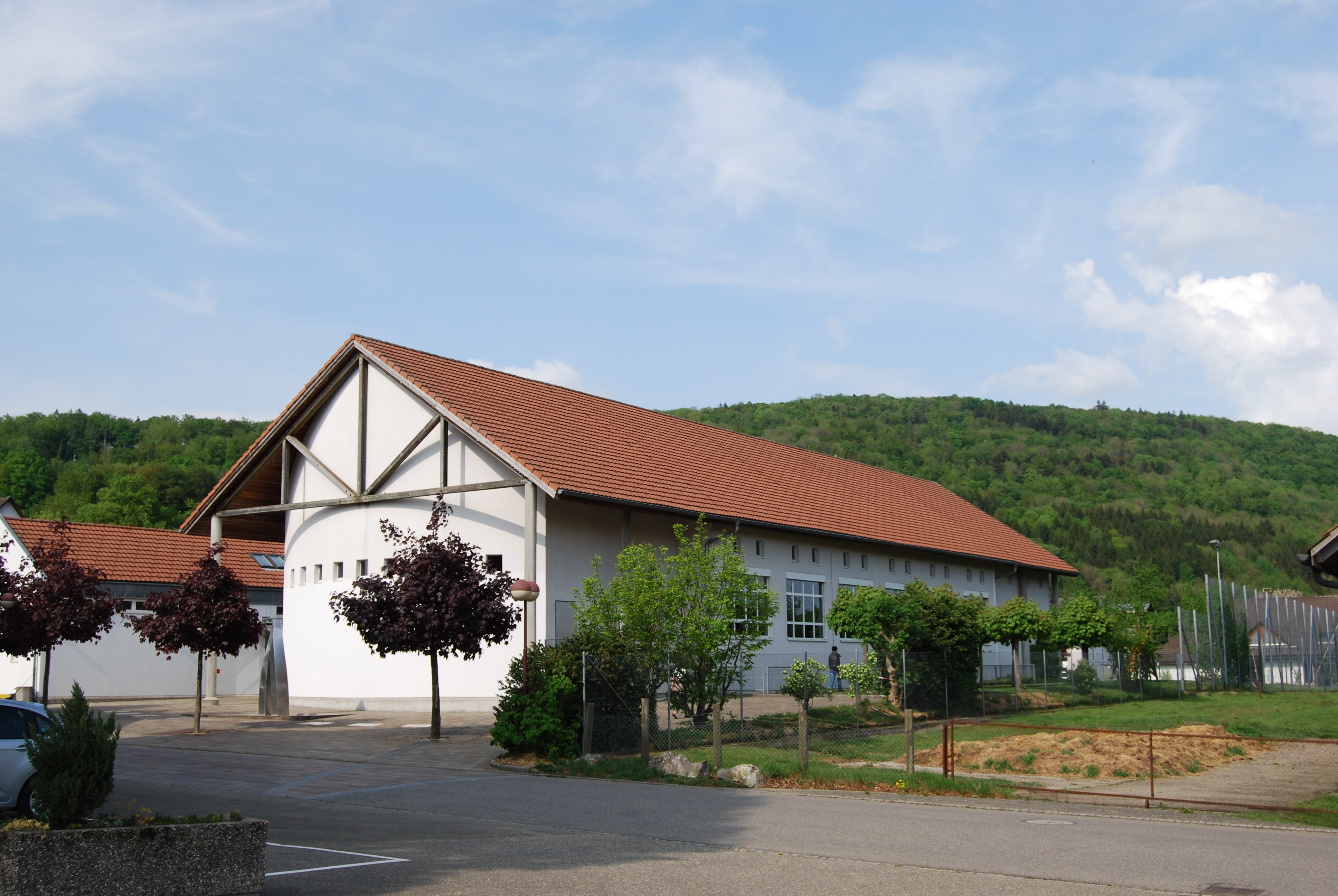 Boningen, canton of Solothurn, Switzerland